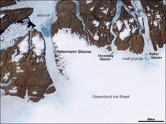 Petermann Glacier, Greenland, observed by the Moderate Resolution Imaging Spectroradiometer (MODIS) on NASA’s Terra satellite on July 5, 2003